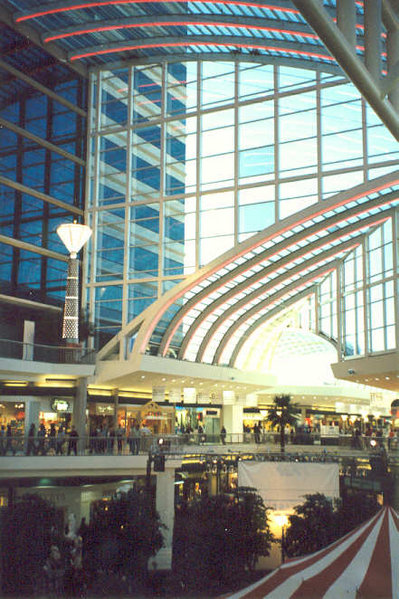 Riverchase Galleria Center Court in Hoover AL